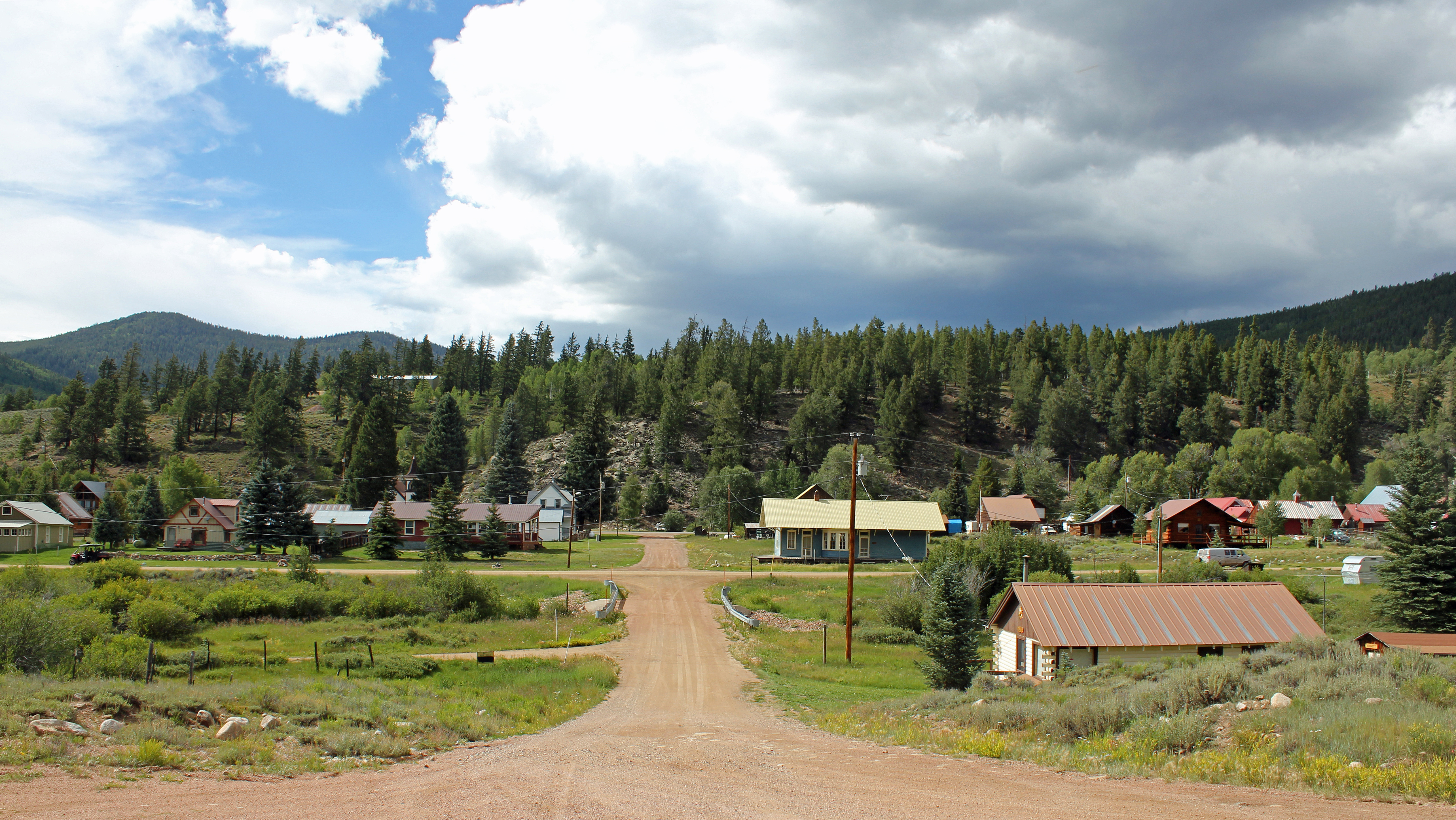 A view of the town of Pitkin, Colorado. Quartz Creek flows under the small bridge at the center of the picture. The creek flows from right to left.